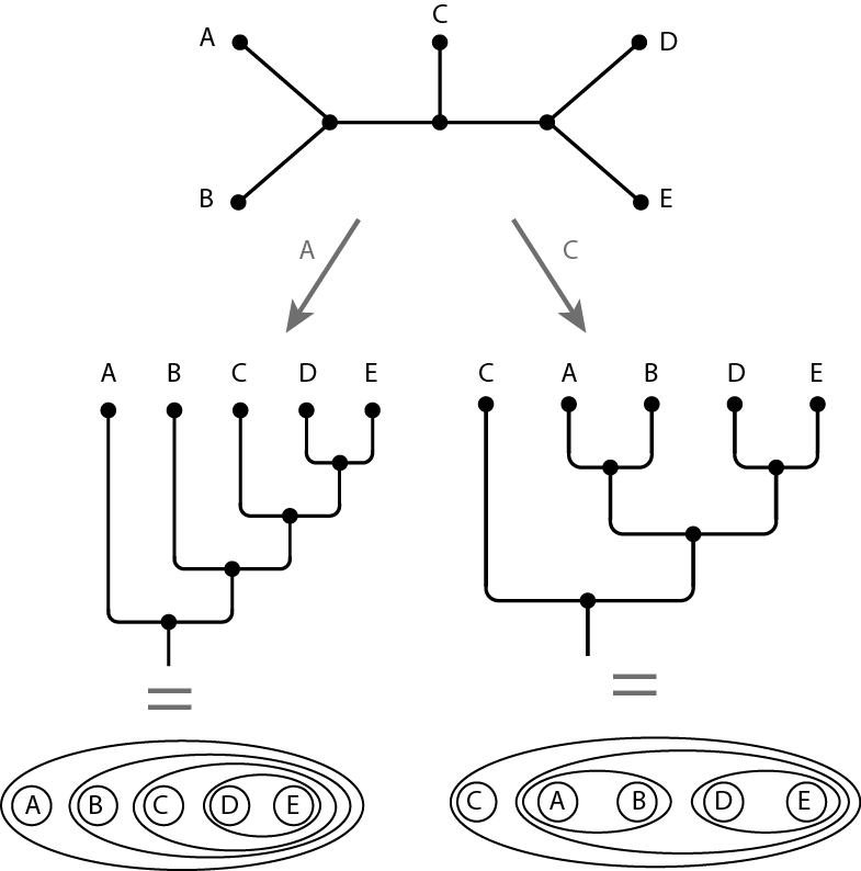 Isomorphy